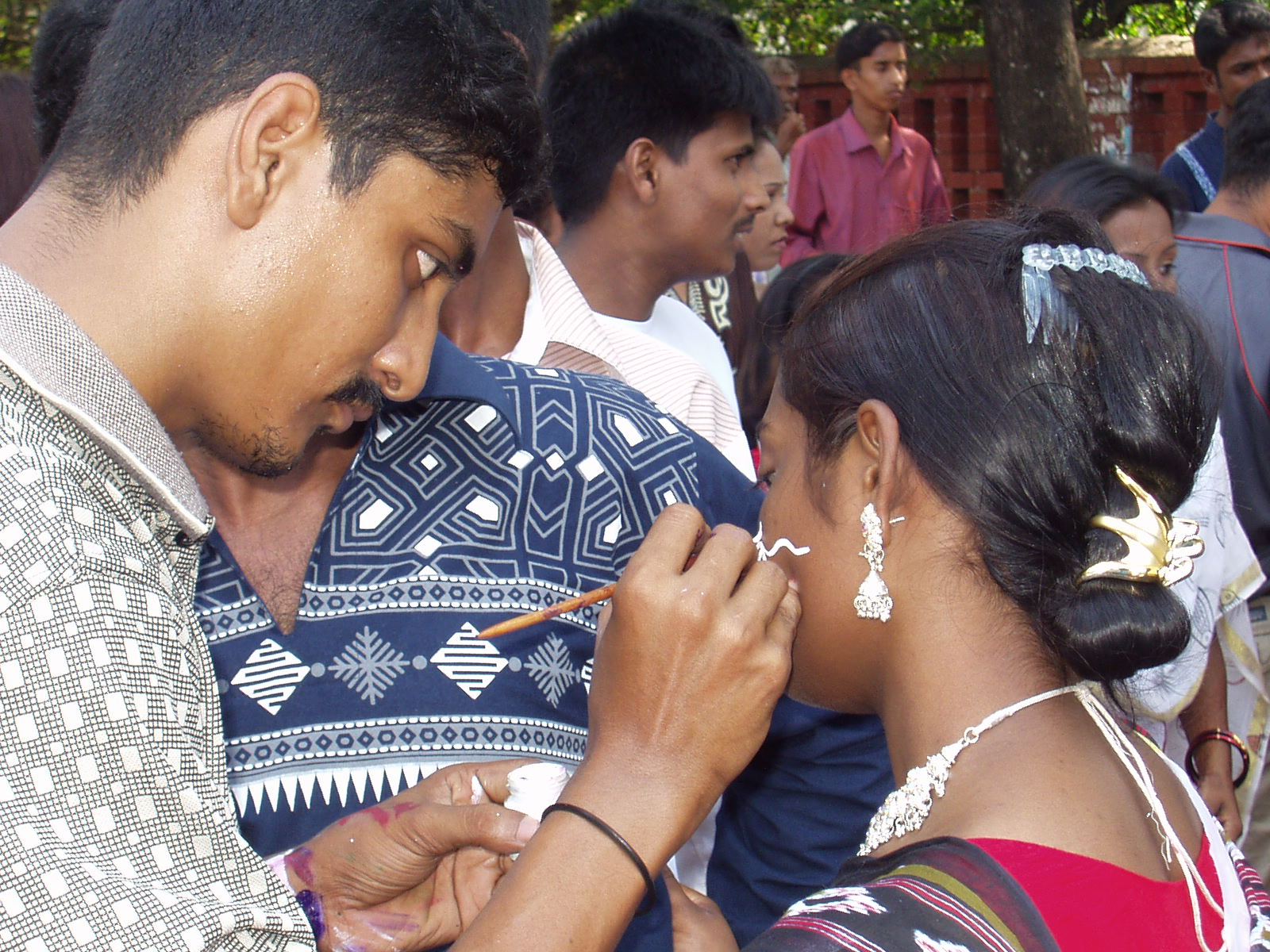 face painting at 1 st Boishakh, TSC, DU. -mamun2a